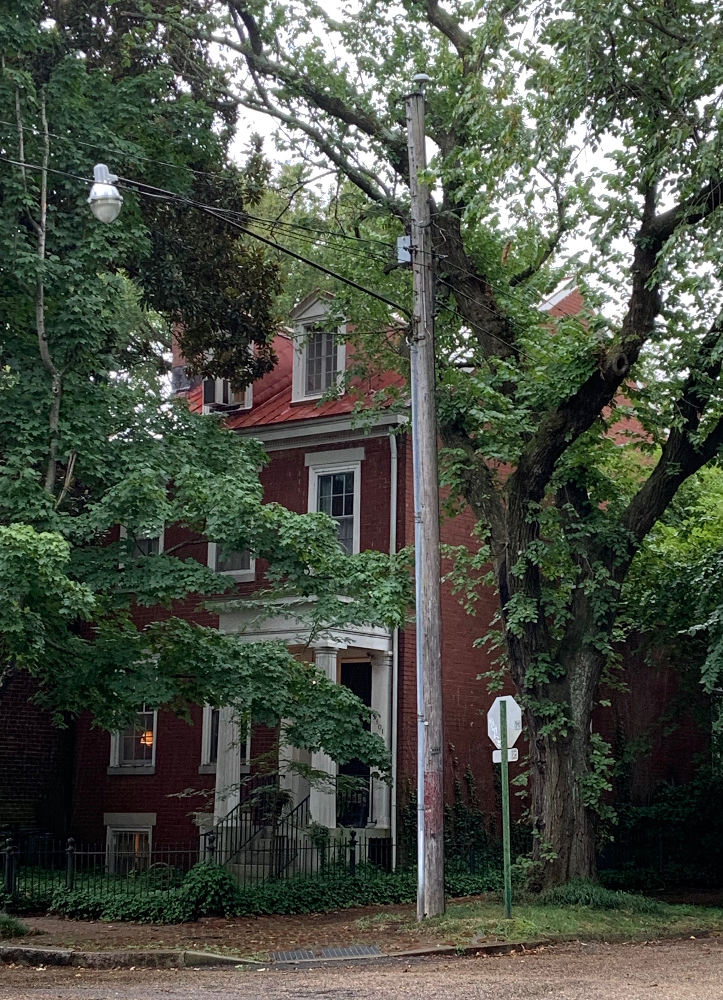 Former home of Augustus and Anna Whitehead Bodeker and their two daughters, Pearl and Ruby, located on the 2800-block of East Grace Street in Church Hill in Richmond, Virginia, U.S.